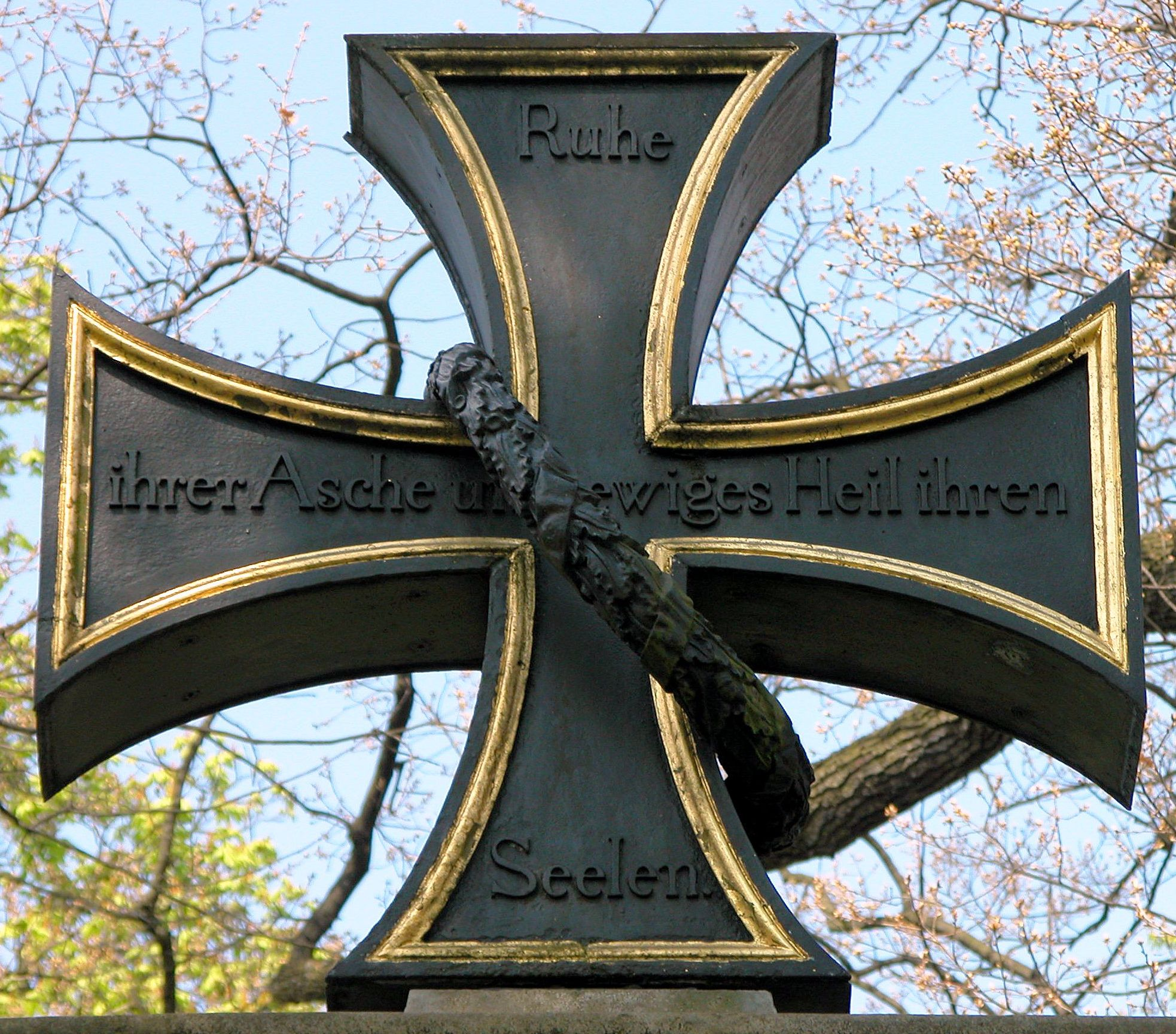 Brunswick, Germany: Detail of the Schill-Monument (Iron Cross).